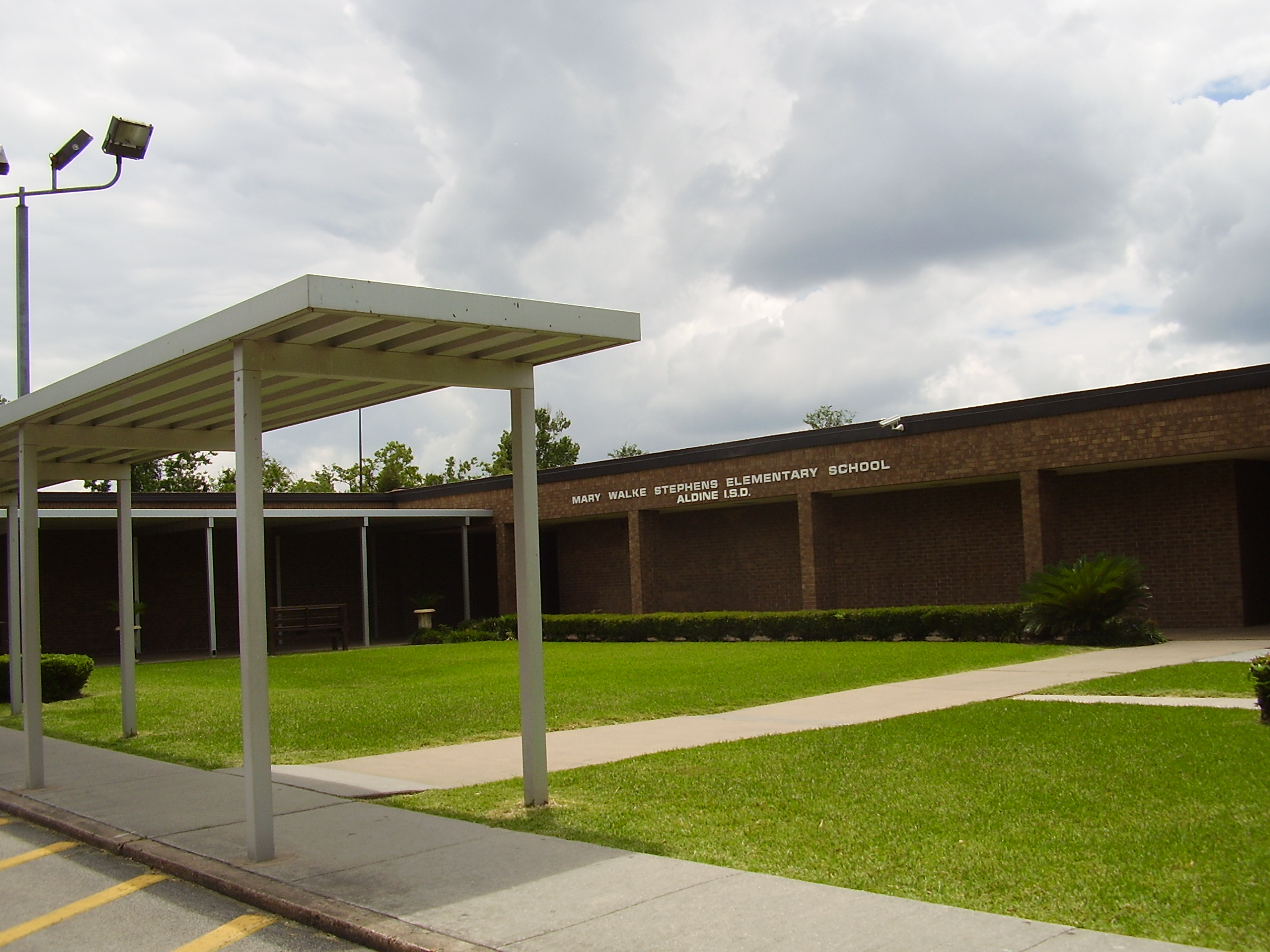 Mary Walke Stephens Elementary School